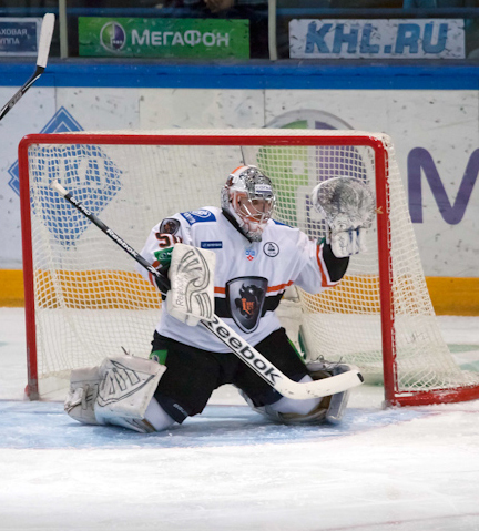 Lev Poprad goaltender Ján Laco and Amur Khabarovsk forward Alexander Krysanov during KHL game on January 10, 2012.